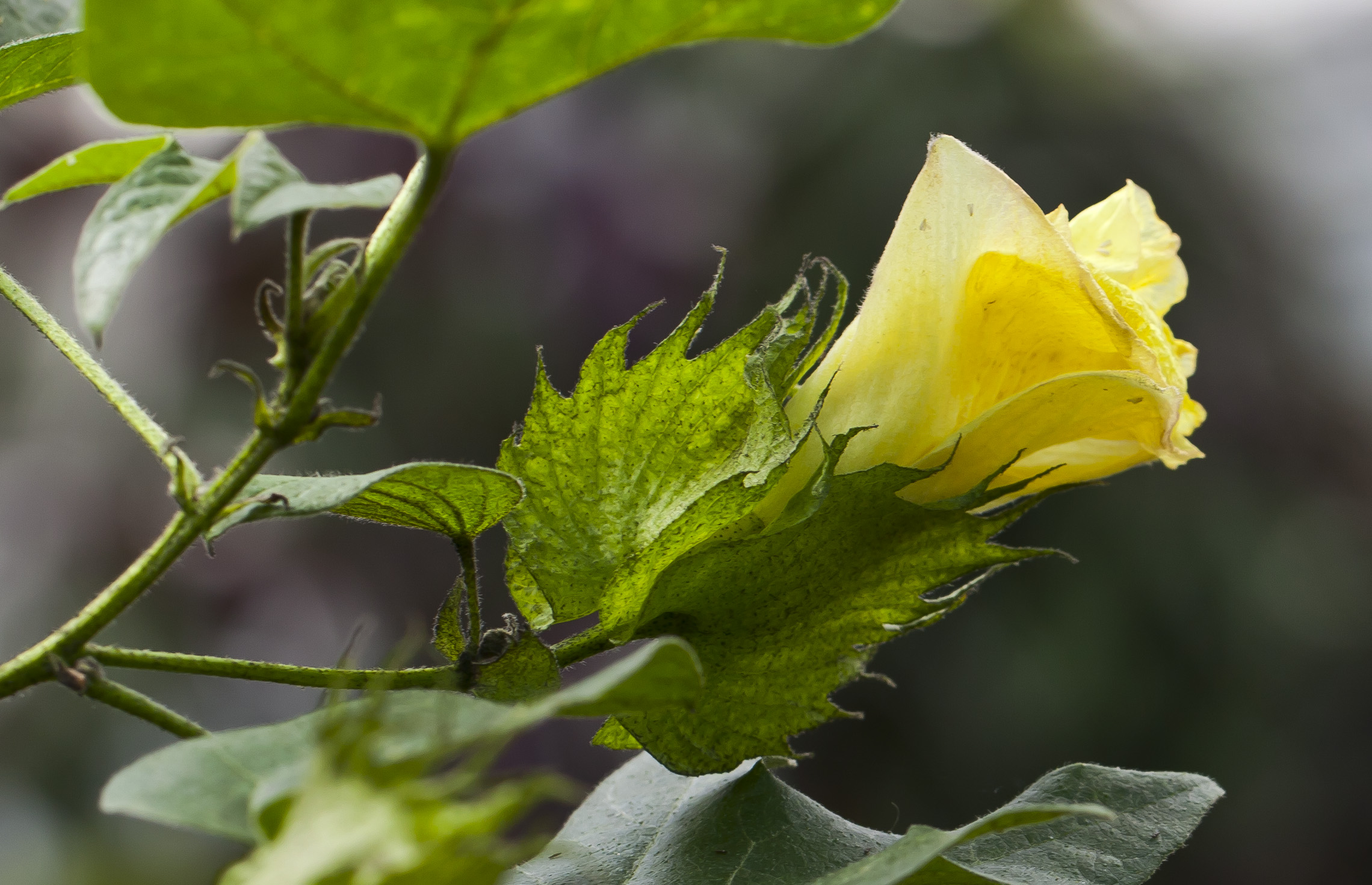 Gossypium arboreum, Tallinn Botanic Garden, Estonia